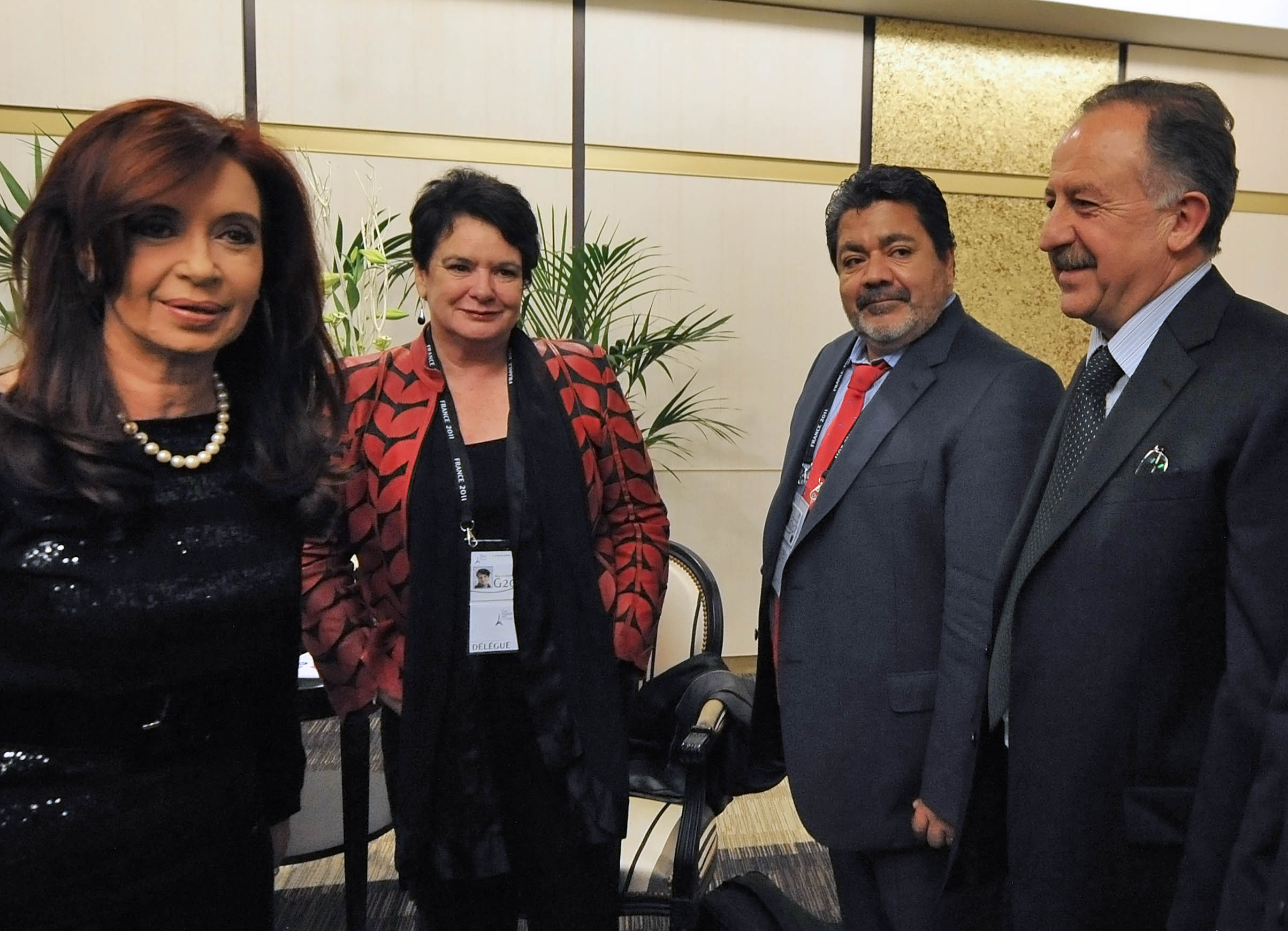 Argentina's President Cristina Fernandez, in Cannes, with Secretary General of the International Trade Union Confederation, Sharah Burrow, general secretary of the UOCRA (Argentina), Gerardo Martinez, Secretary General of CTA (Argentina), Hugo Yasky. During G-20 meeting in Cannes, France, 2011